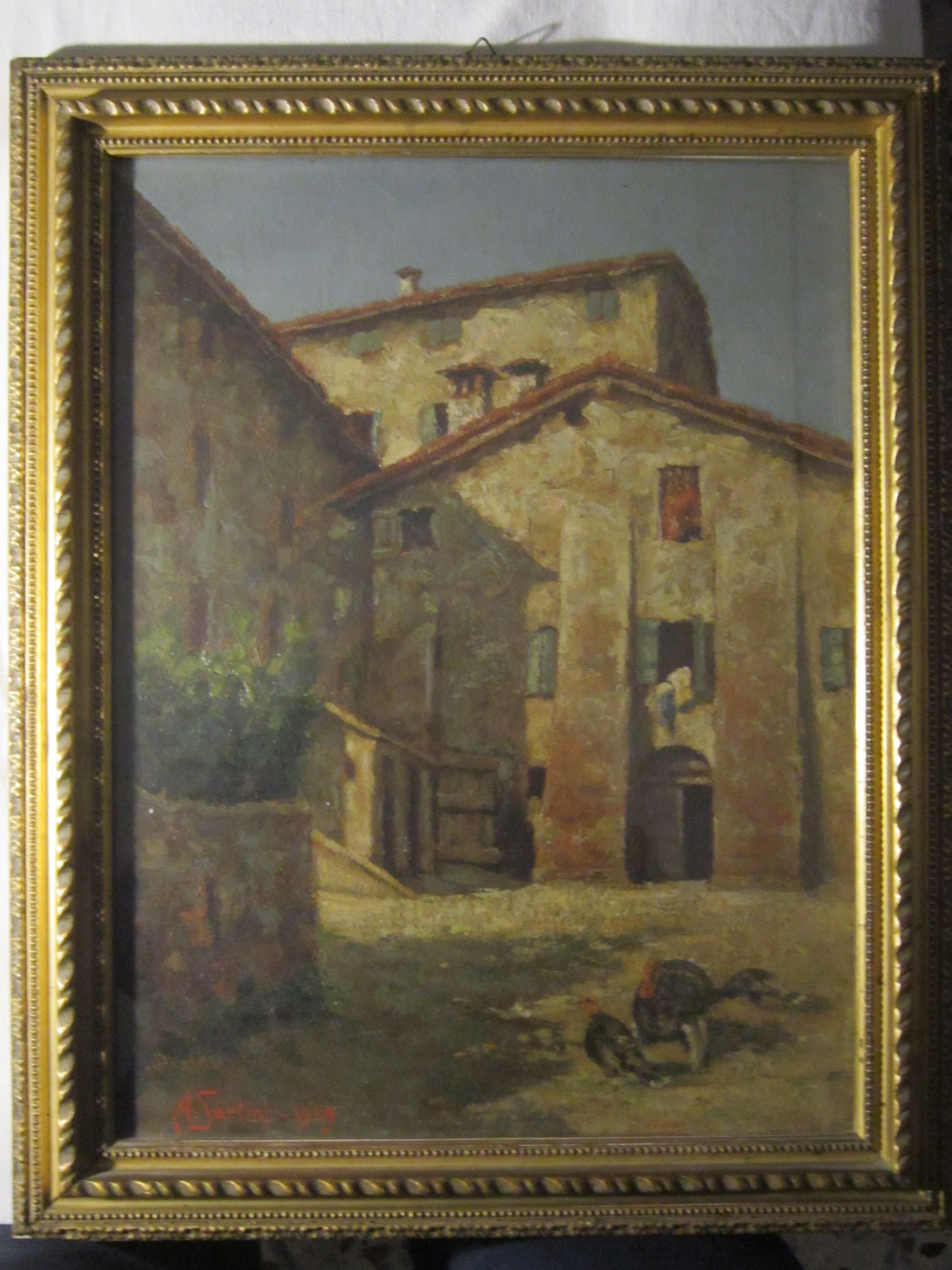 This is one of the first works of Antonino Sartini.